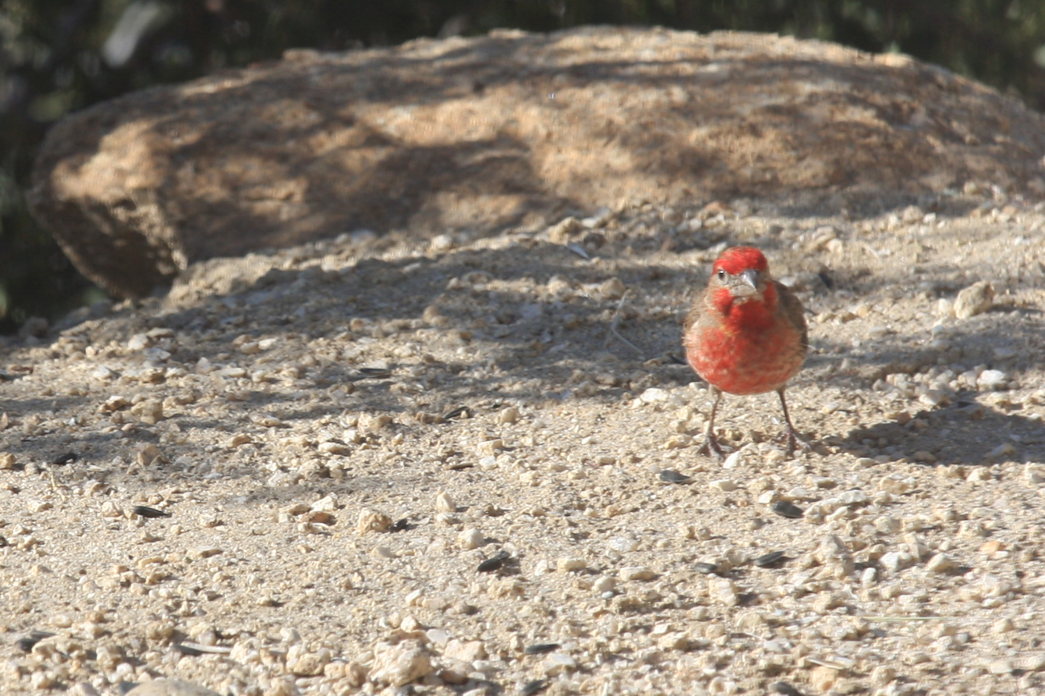 A purple finch (Carpodacus purpureus) from front view, on gravel. At 7000 ft above sea level, east side of the Sierra Nevada, California.